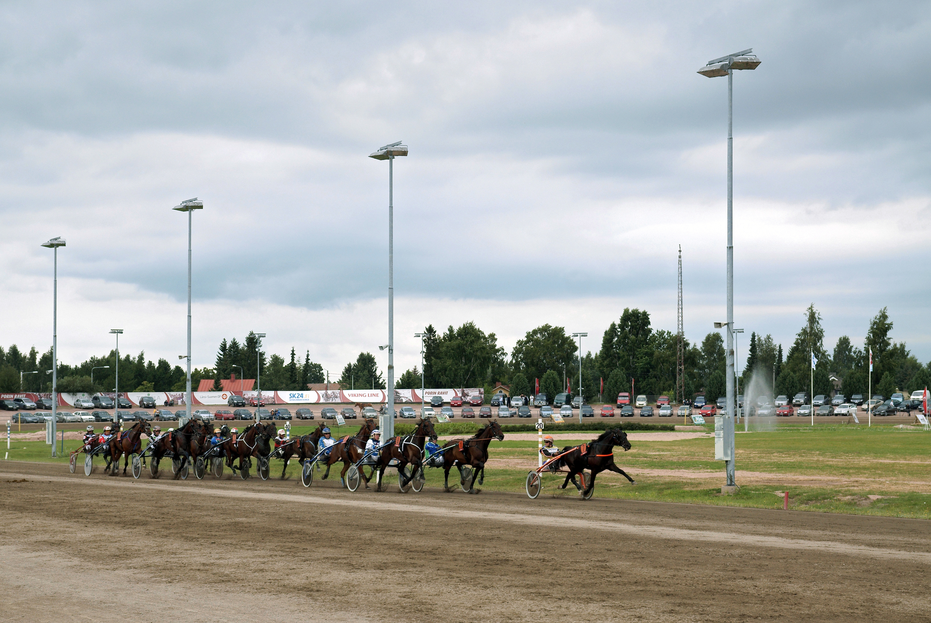 Start number 7 in Pori harness racing track 6.8.2011. Horse number 8 is Kamikaze Comery with Pekka Korpi and number 7 is Felix Pro with Tommi Kylliäinen.